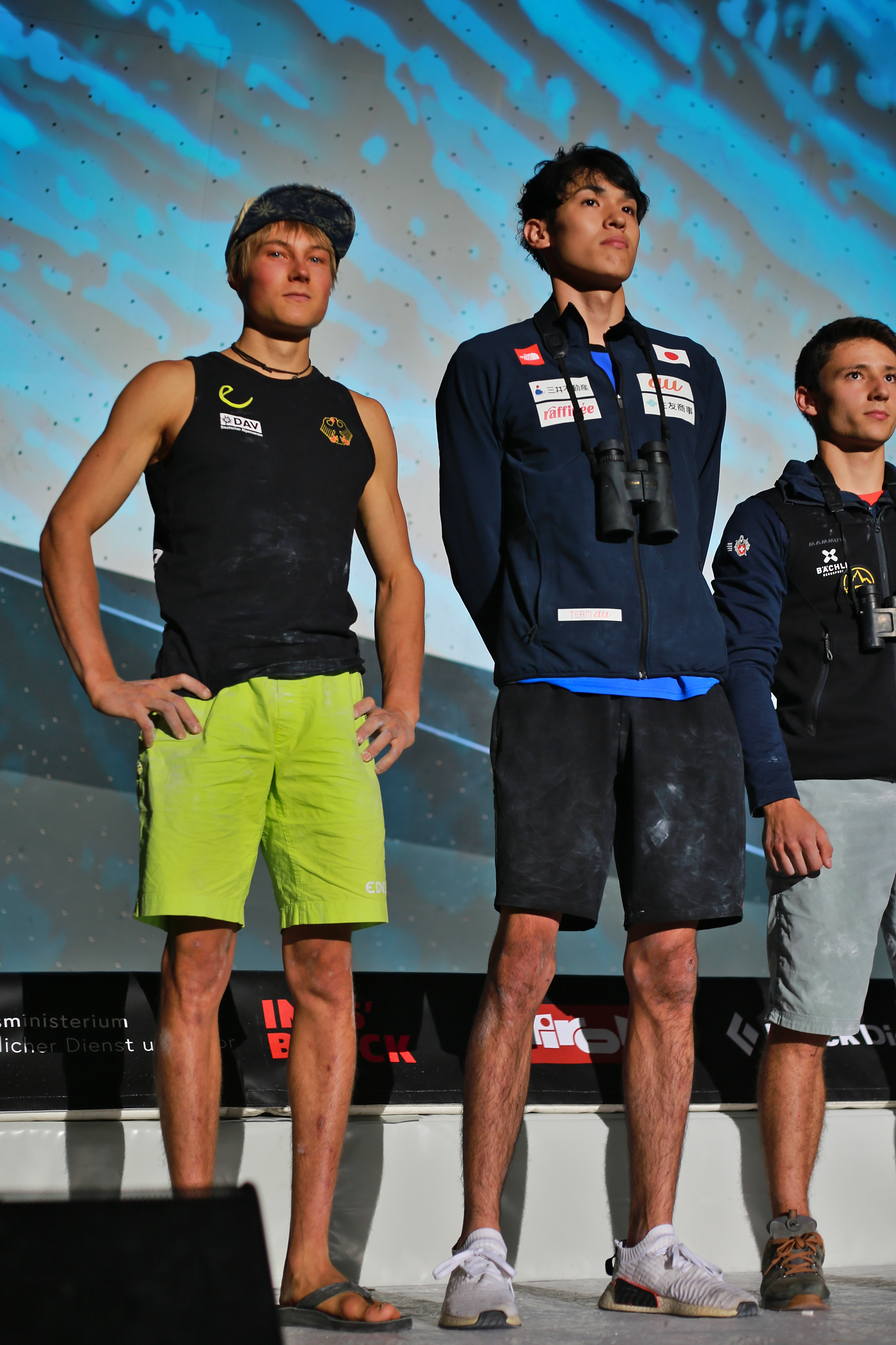 Finalists of IFSC Climbing World Championships Innsbruck 2018 Final MAN lead